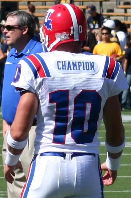 Zac Champion, No. 10, is now a backup quarterback with the CFL's B.C. Lions.